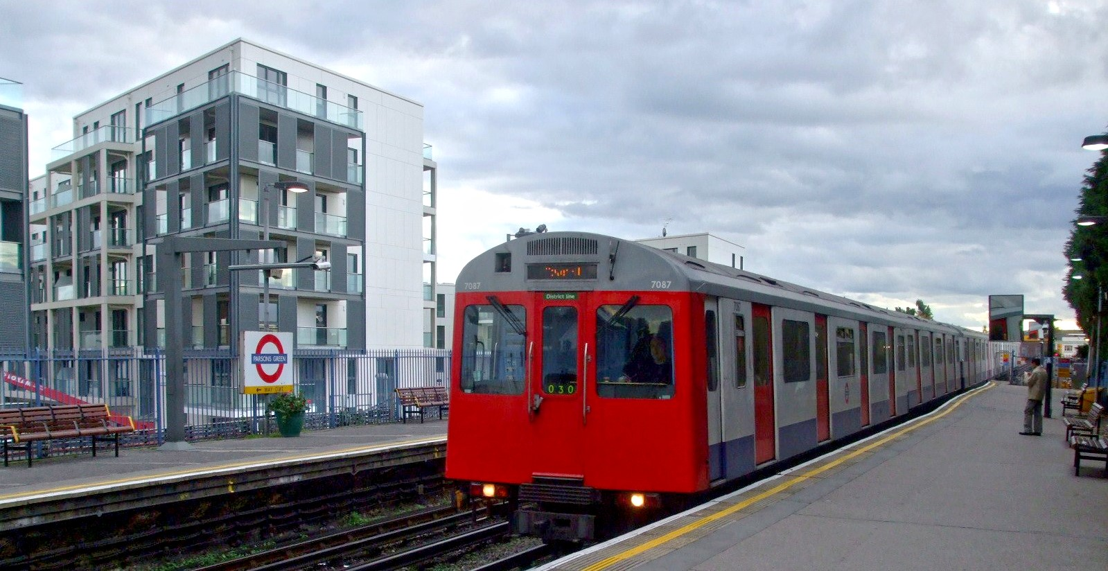 A train of D Stock calls at Parsons Green tube station with an eastbound District line service